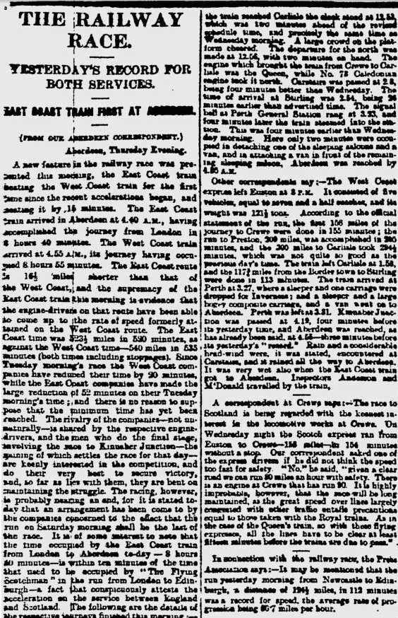 Report in the Glasgow Herald of the Race to the North by trains from London to Aberdeen.